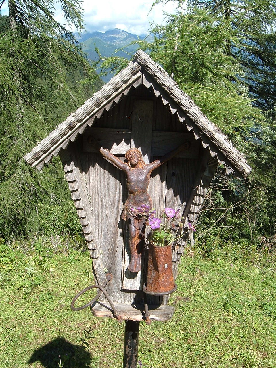 Crocefisso Malga Meda